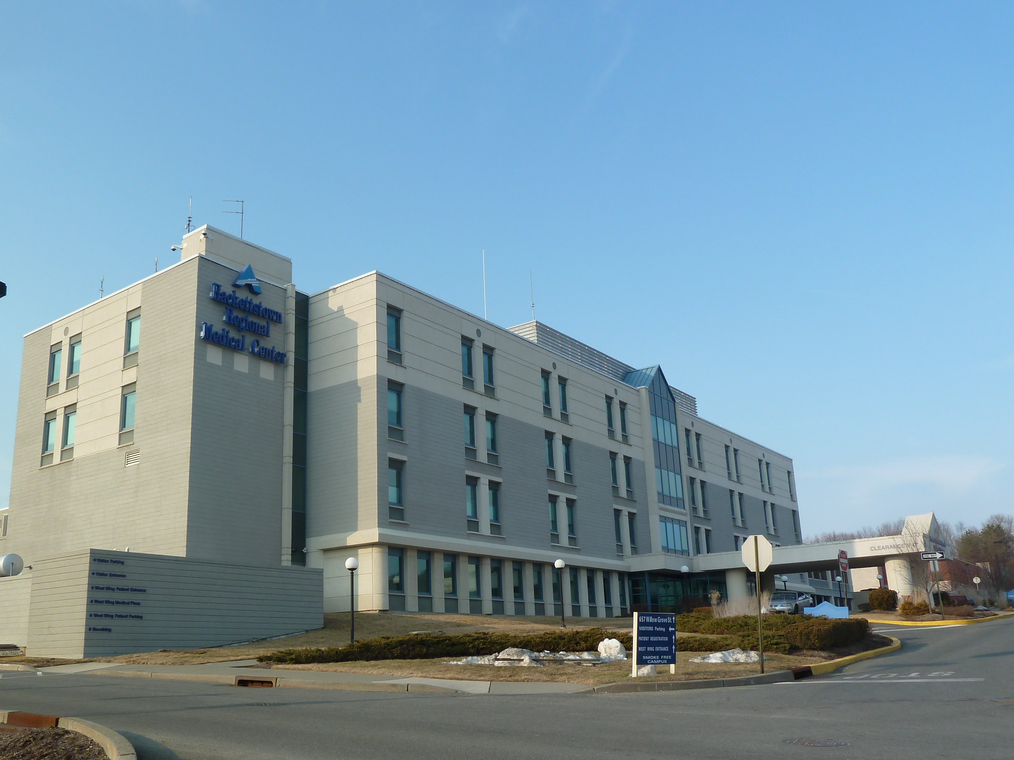 Hackettstown Regional Medical Center, Hackettstown, New Jersey